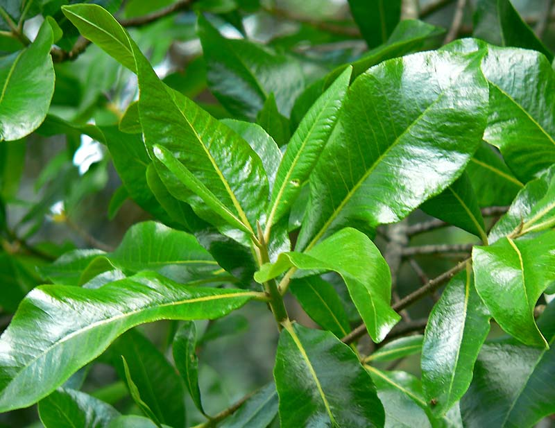 Photo of Calodendrum capense at the San Francisco Botanical Garden